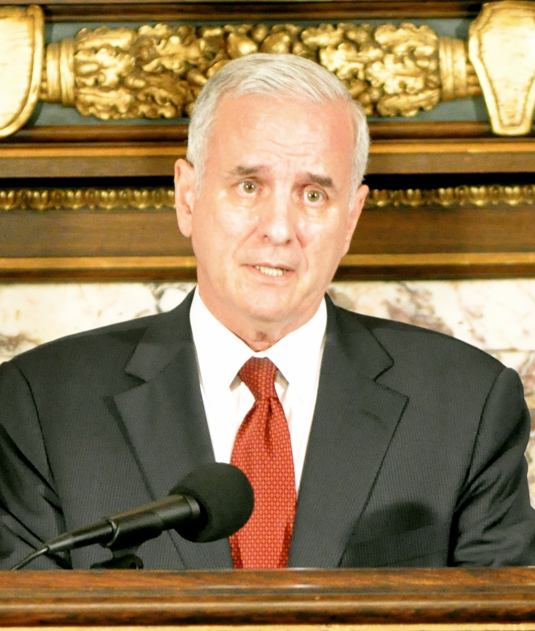 Minnesota Governor Dayton holds a press conference to discuss the budget debate. He was joined by Senator Tom Bakk and Representative Paul Thissen.